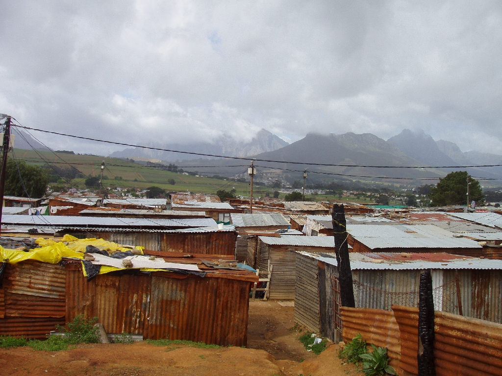 Shacks in Kayamandi, South Africa. Picture taken by myself in September 2006.